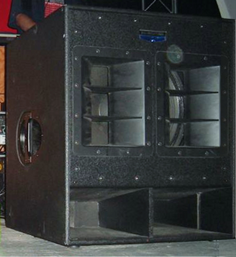 Mackie SWA1801 Active 18" Subwoofer System